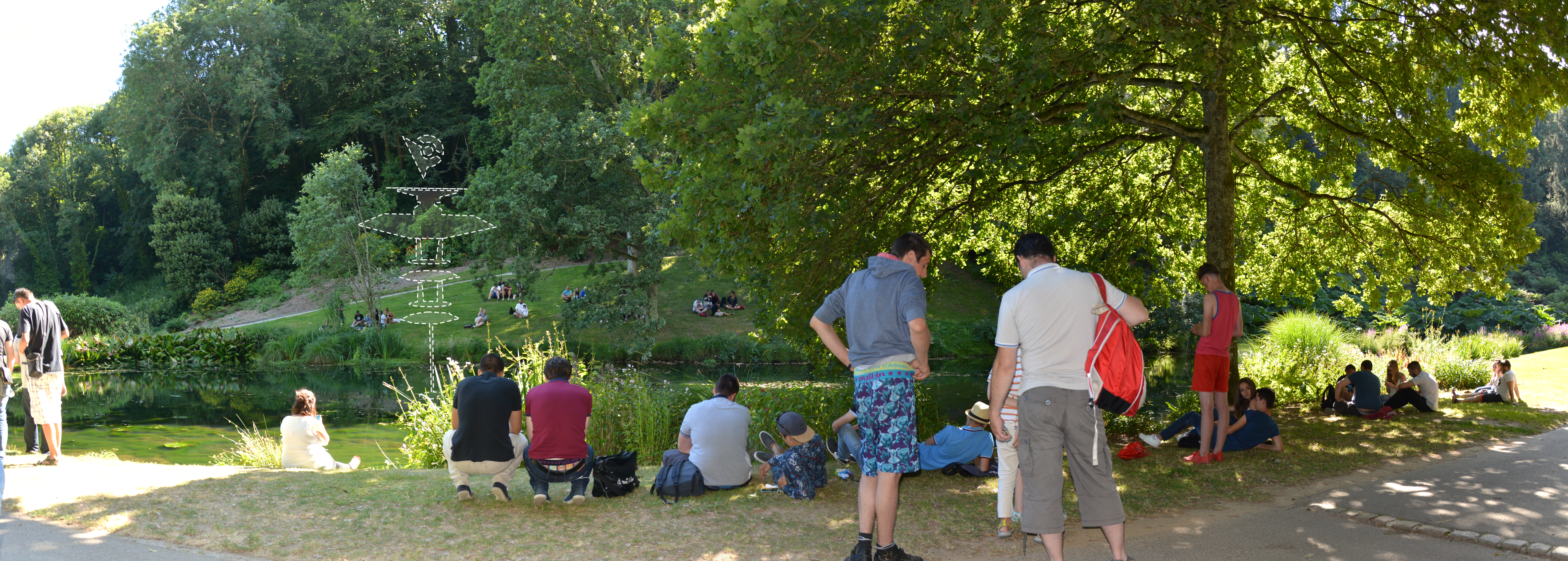 People playing Pokémon GO together around a "gym" in Brest, France